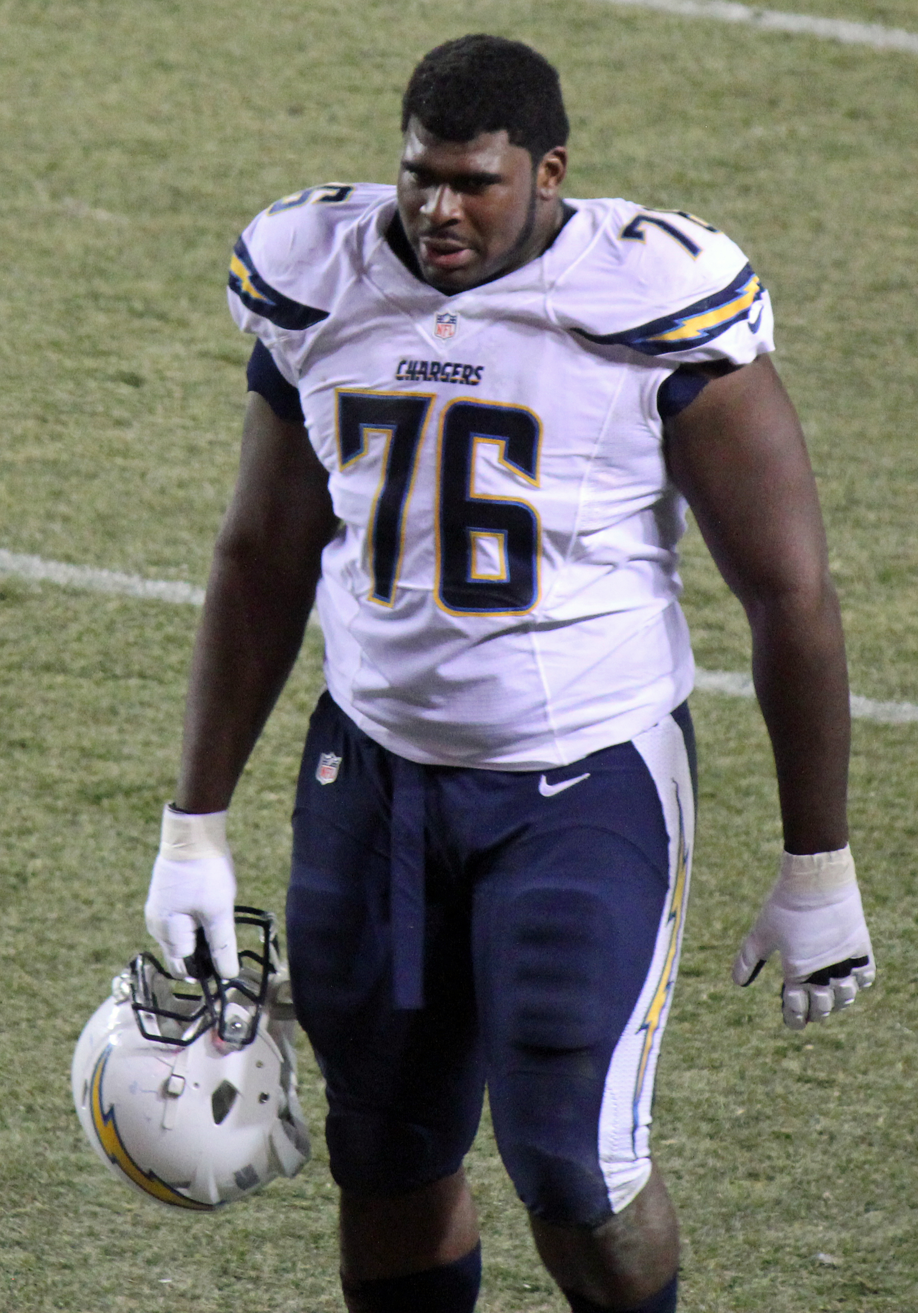 D. J. Fluker, a player on the National Football League.